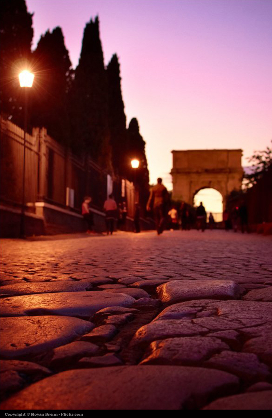 the "via Sacra" taken at dusk